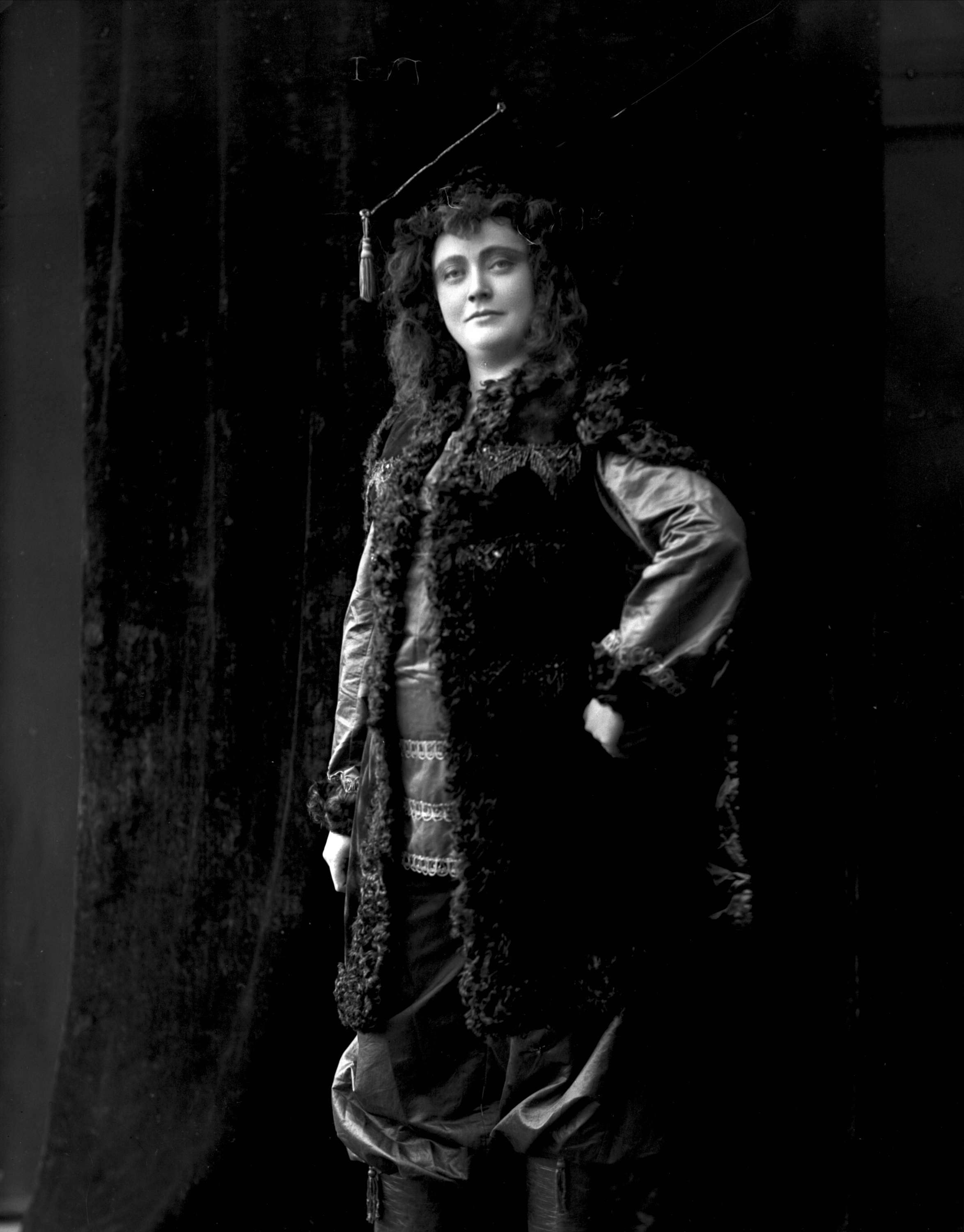 The soprano Gabrielle Bidenkap as the witch in "Hans og Grethe" (by Humperdinck) National Theateret 1903